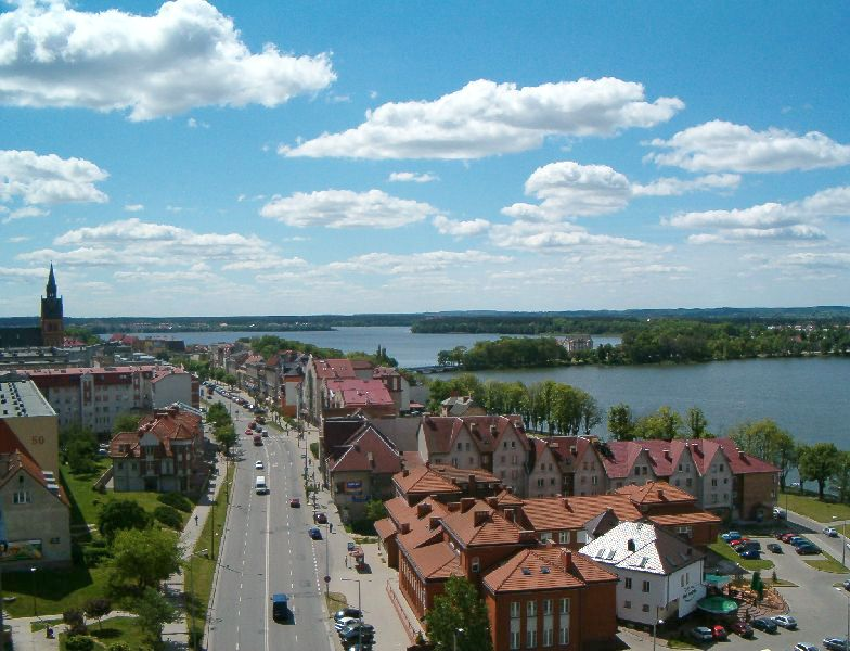 Ełk:ulica Wojska Polskiego